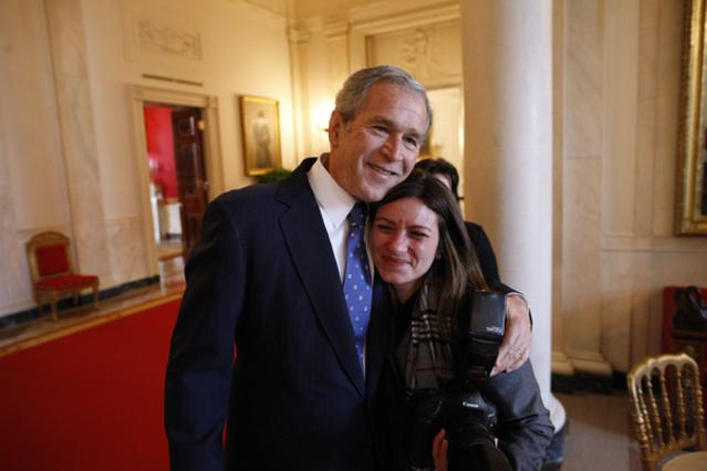 George W. Bush with photographer Shealah Craighead